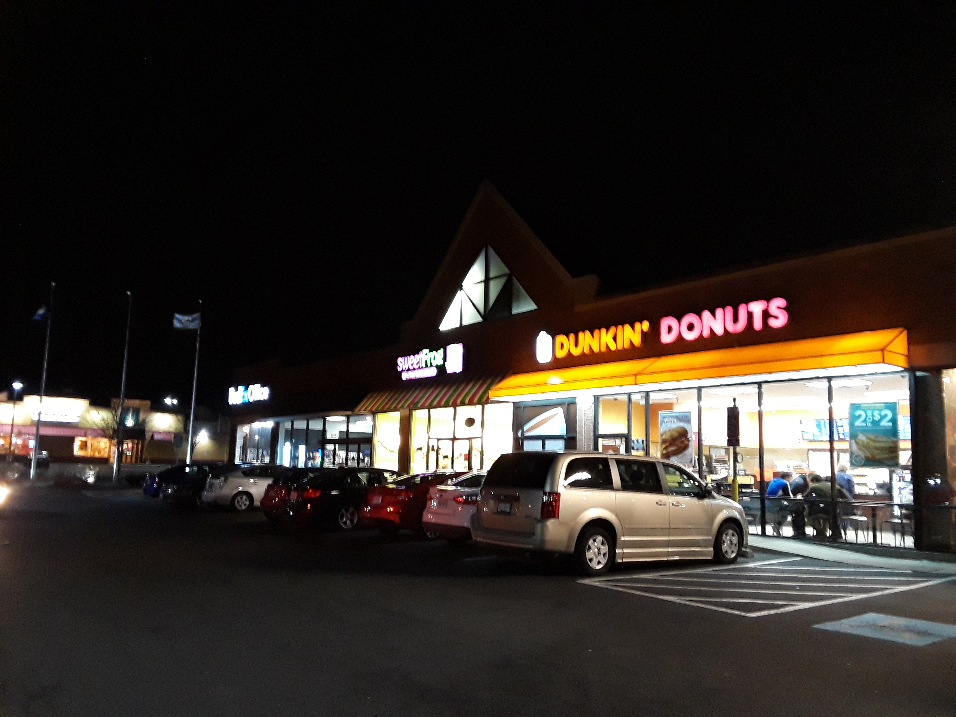 Greenbriar Shopping Center, Greenbriar CDP, Fairfax County, Virginia